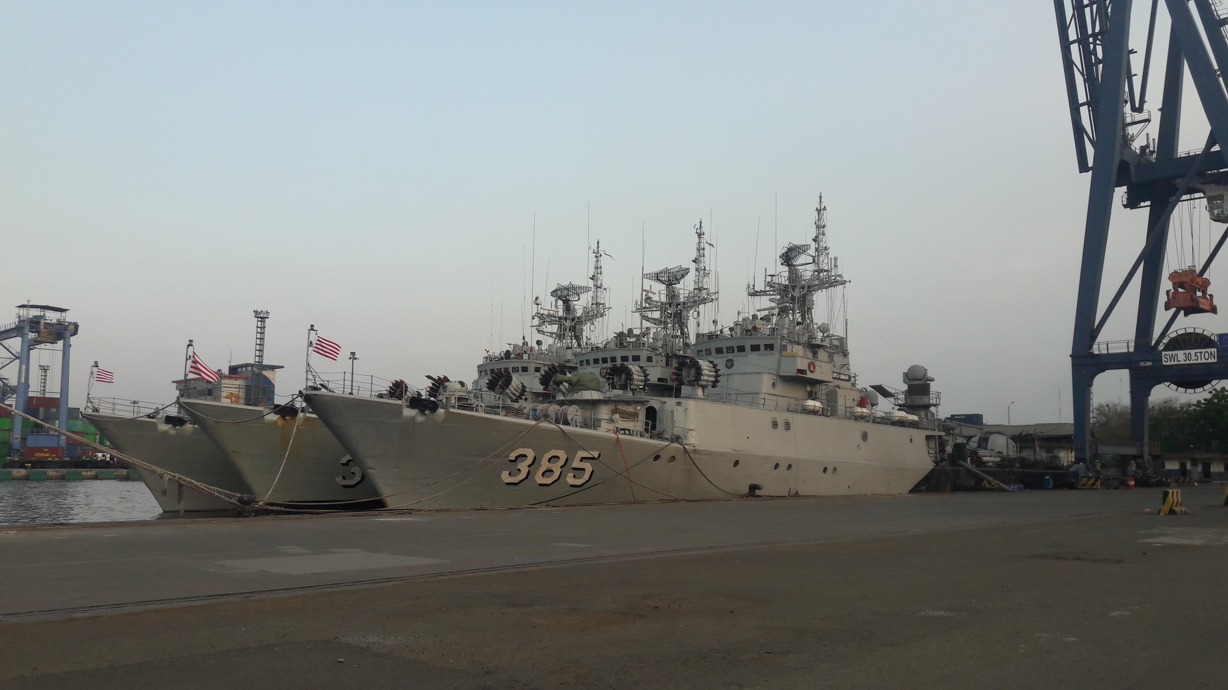 Three Indonesian Navy Kapitan Pattimura class on Tanjung Priok.